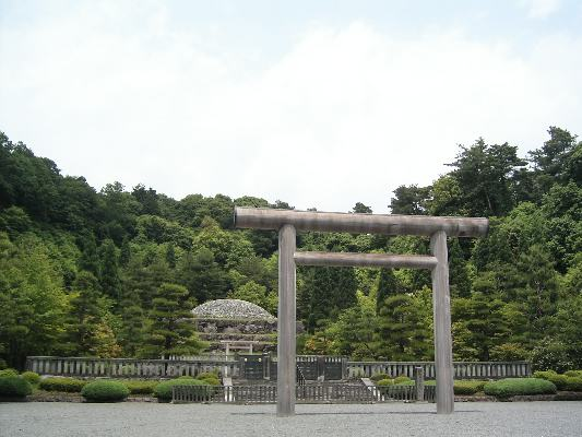 Emperor Showa's Imperial mausoleum